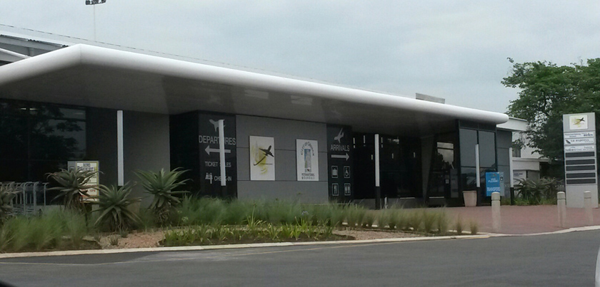 Exterior view of the passenger terminal taken from the parking lot.